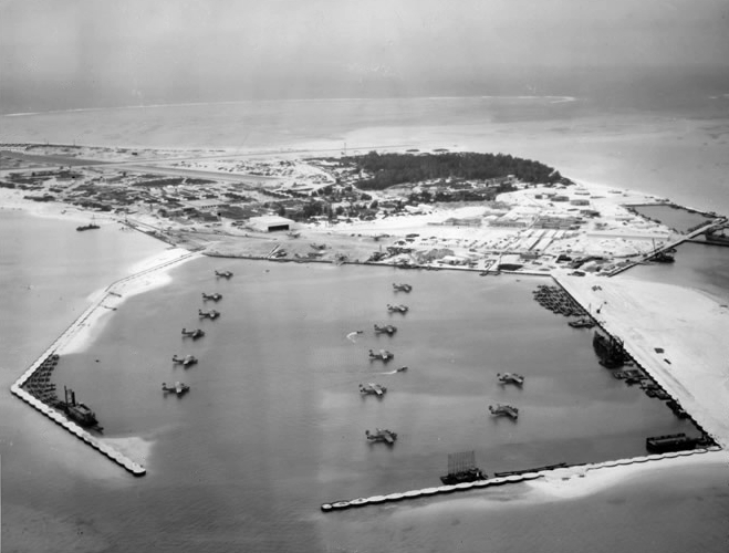 Fourteen U.S. Navy Consolidated PB2Y-5 Coronado planes of patrol squadrons VP-13 and VP-102 anchored in the submarine basin at Sand Island, Midway Atoll, on 29 January 1944. These aircraft carried out four bombing raids on Wake Island between 30 January and 9 February 1944. 50 tons of ordnance were dropped without sustaining any casualties.